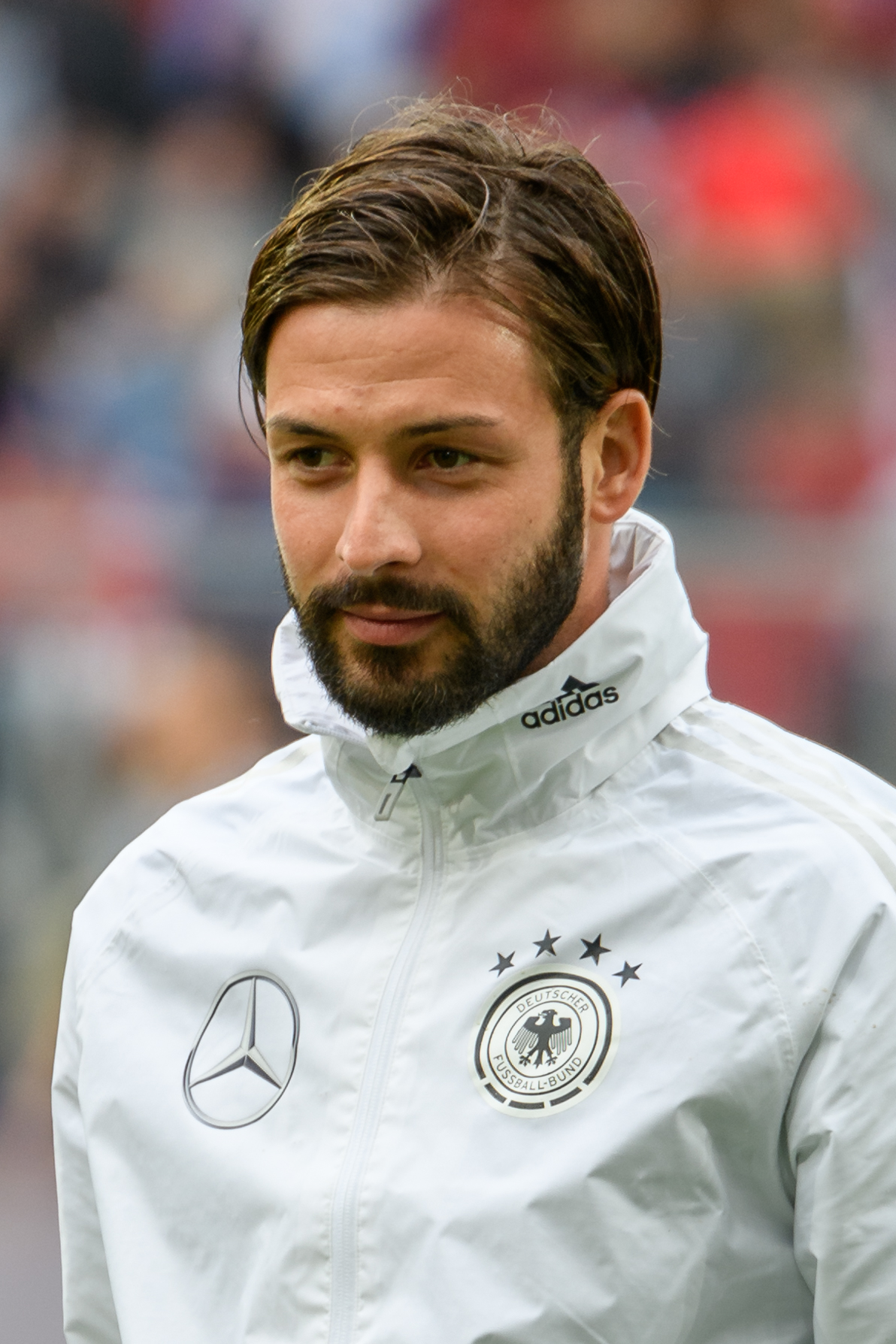 FIFA Friendly Match Austria vs. Germay 2018/06/02 in Klagenfurt/Woerthersee. Picture shows Marvin Plattenhardt (GER).